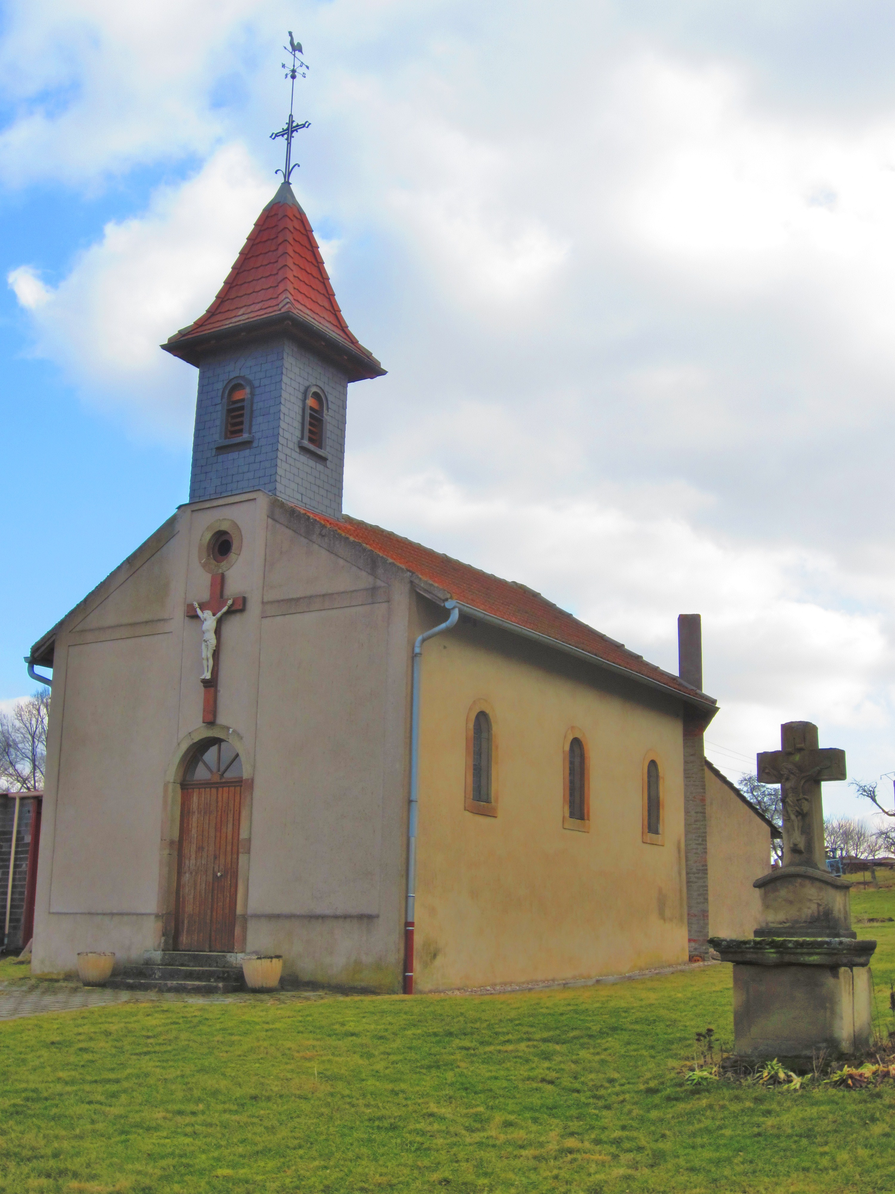 Rurange Megange chapel